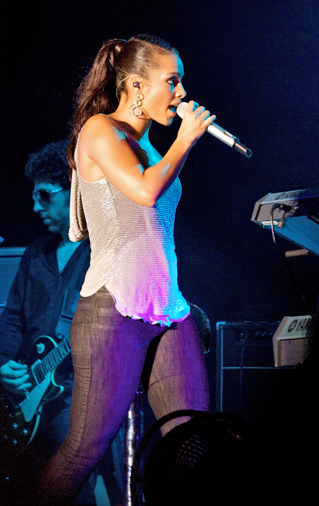 Alicia Keys performing at the 2008 Summer Sonic Festival in Tokyo, Japan (cropped).